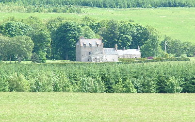 Crombie Castle seen from Brae of Crombie.